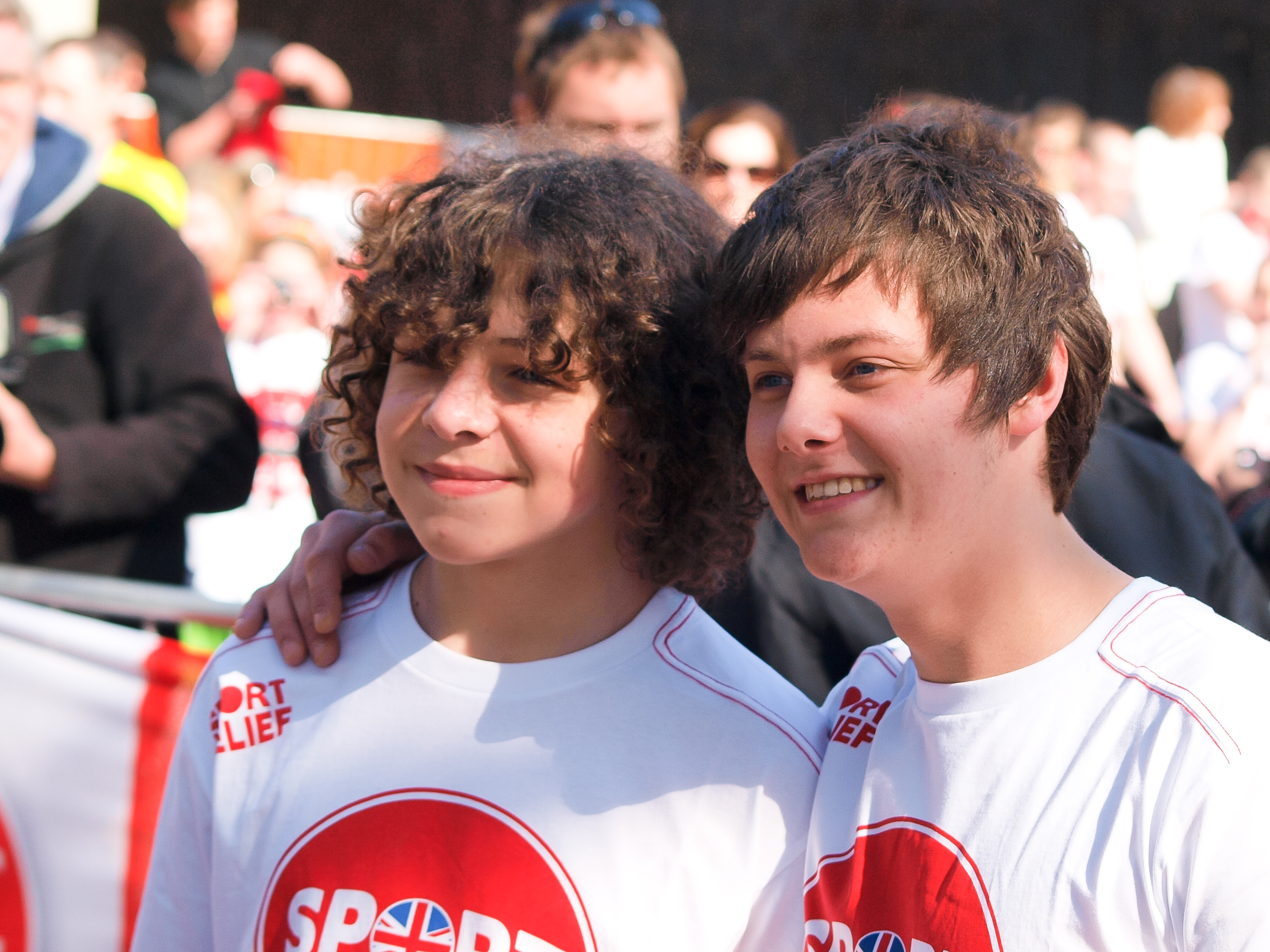 A photograph of Daniel Roche and Tyger Drew-Honey at the Sport Relief Mile 2012 in London.